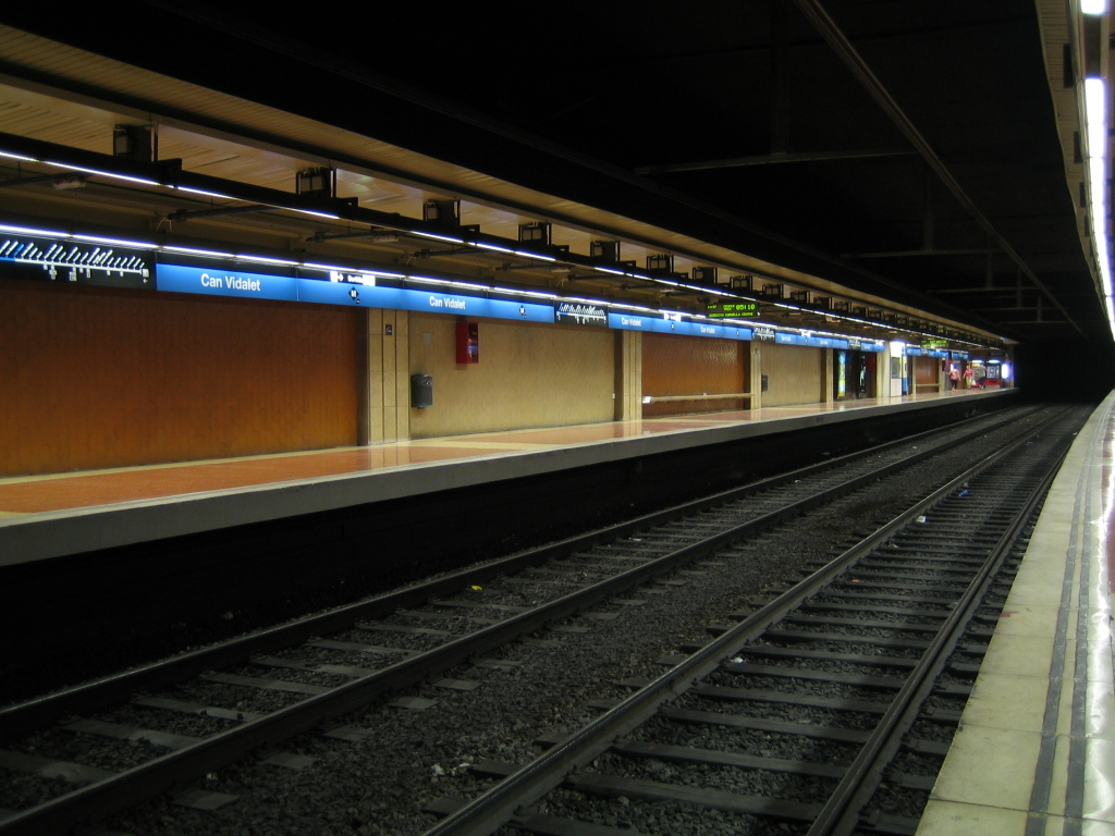 Barcelona's metro station Can Vidalet